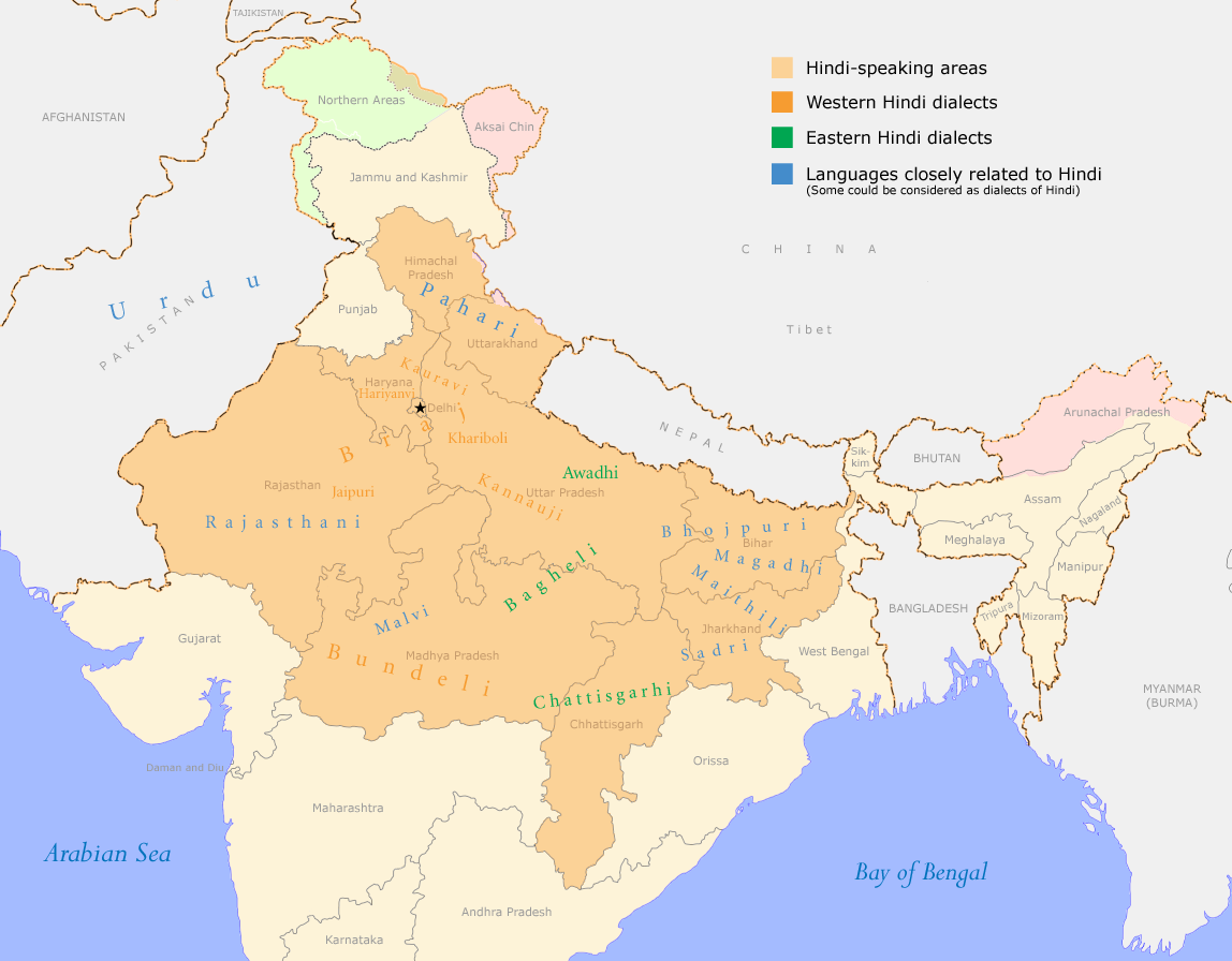 Map of the (major) dialects of Hindi.